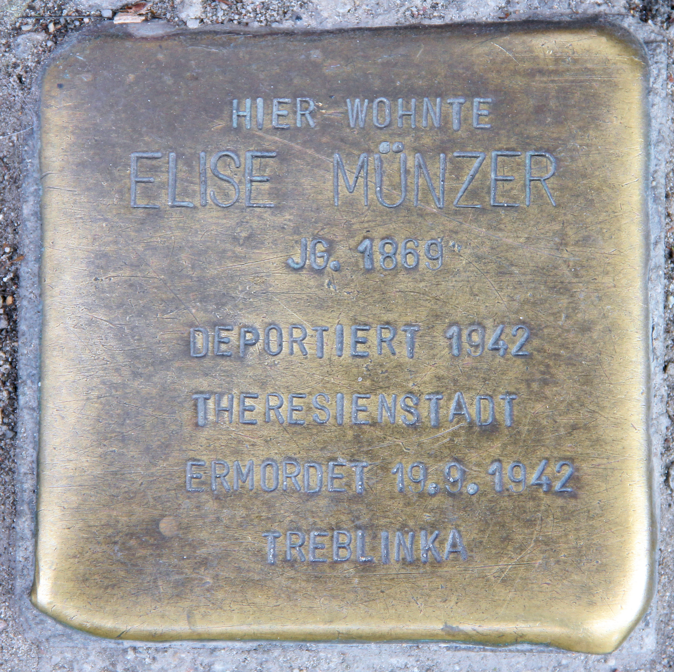 "Stolperstein" (stumbling block), Elise Münzer, Grunewaldstraße 56, Berlin-Schöneberg, Germany